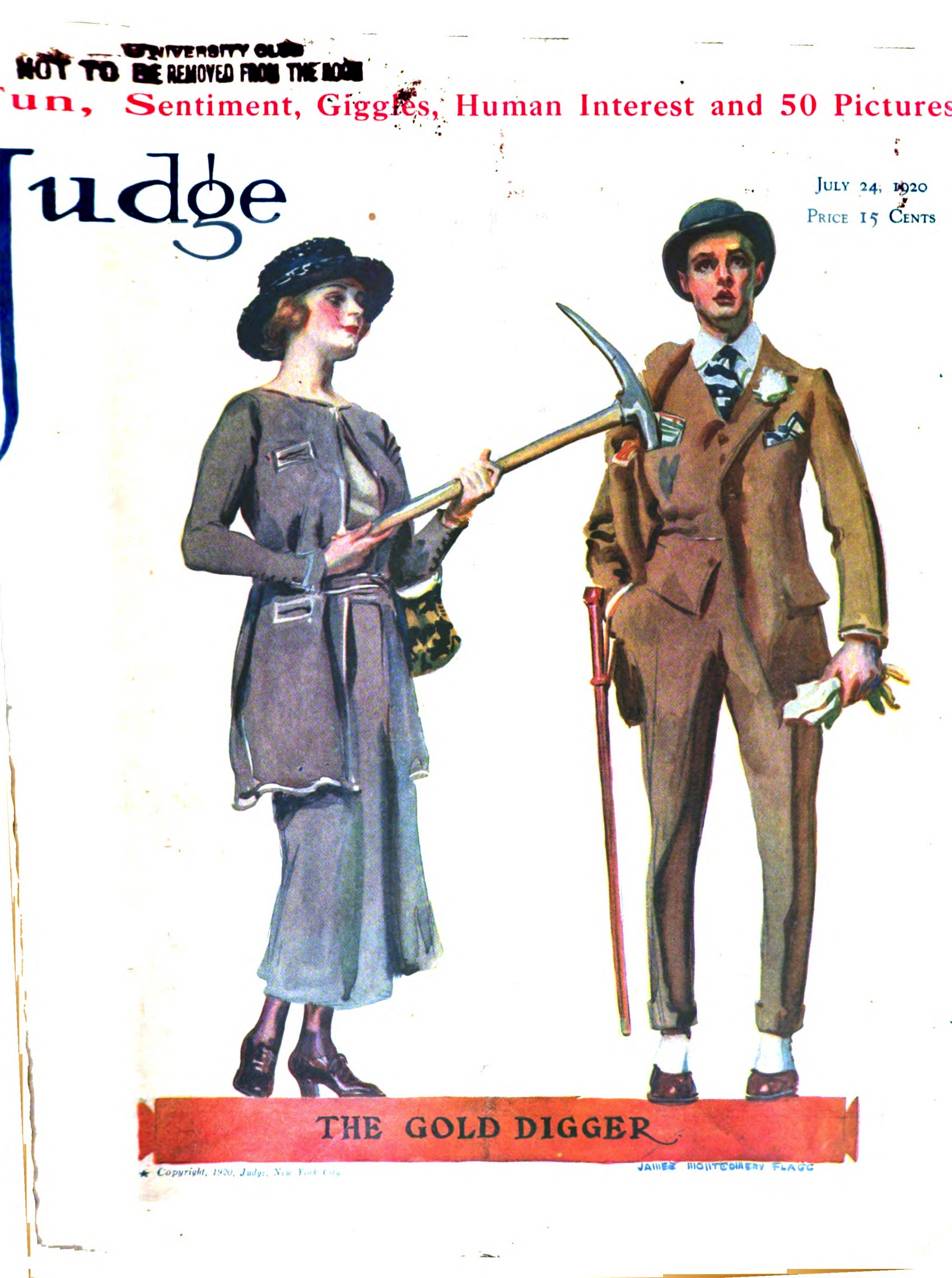 Judge Magazine Cover (24 Jul 1920)